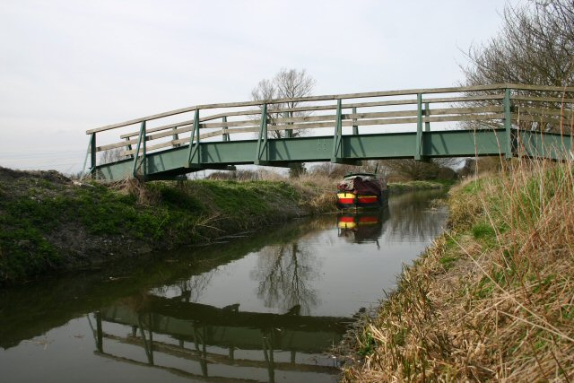 Reach Lode In medieval times the Lode was used to transport clunch (a chalky building material) to Cambridge and Ely. Reach was a busy port between the 14th and 18th centuries, but trade went into decline in the 19th century. The last recorded cargo of clunch was carried in the 1930s. Reach Lode is maintained in a navigable condition by Anglian Water.